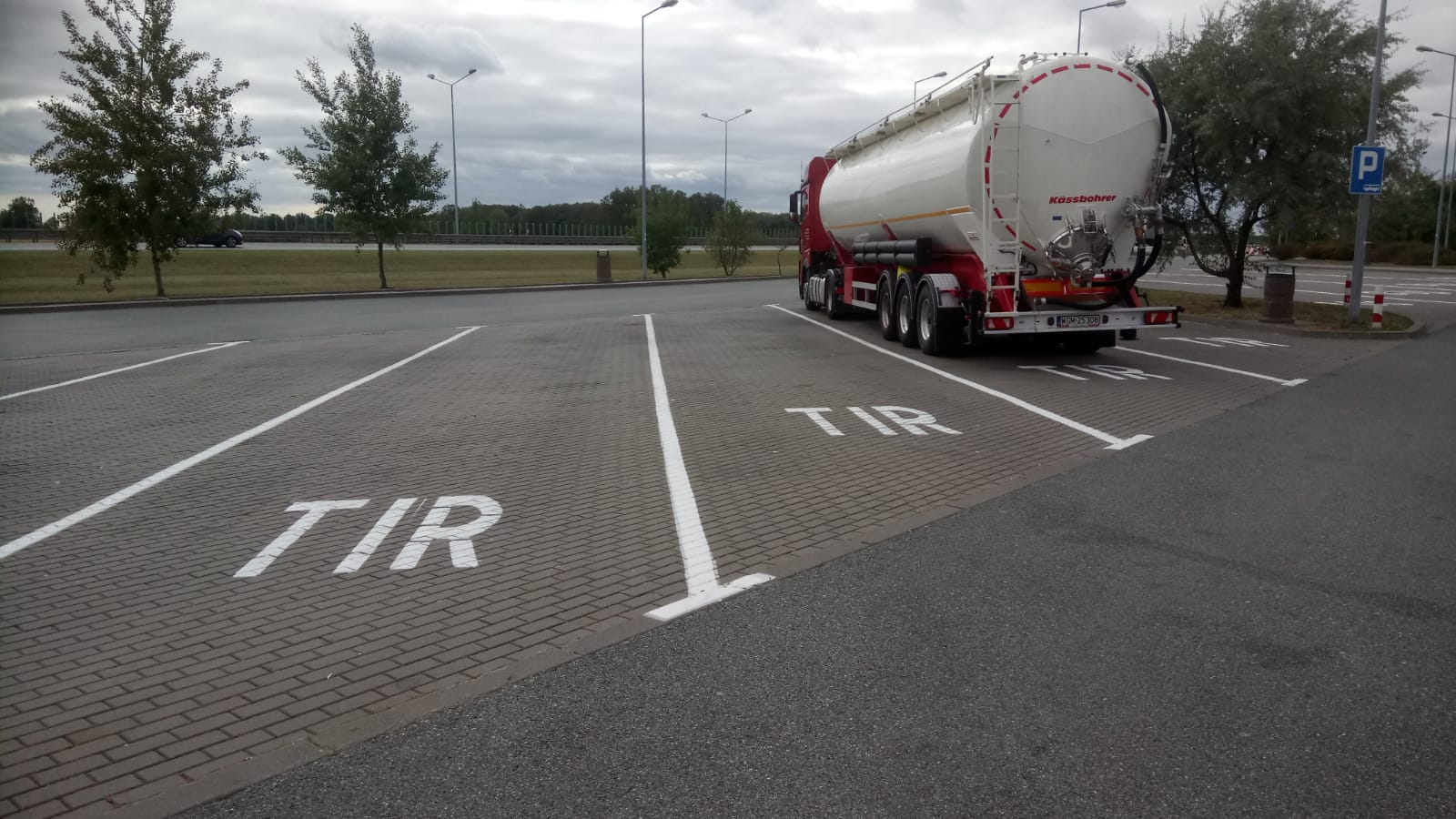 HGV parking Poland